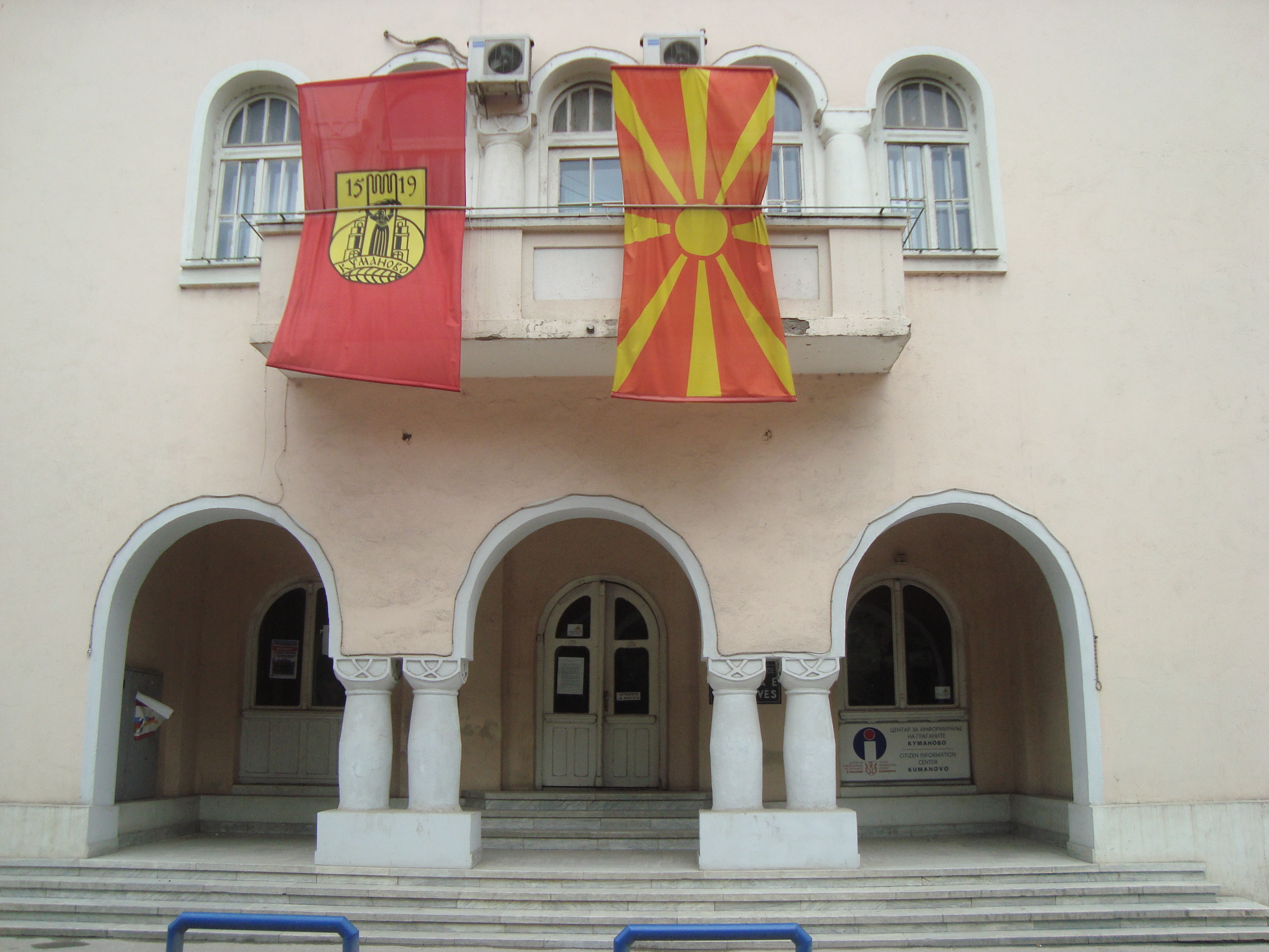 The entrance of the Kumanovo City Hall, Kumanovo, Macedonia.